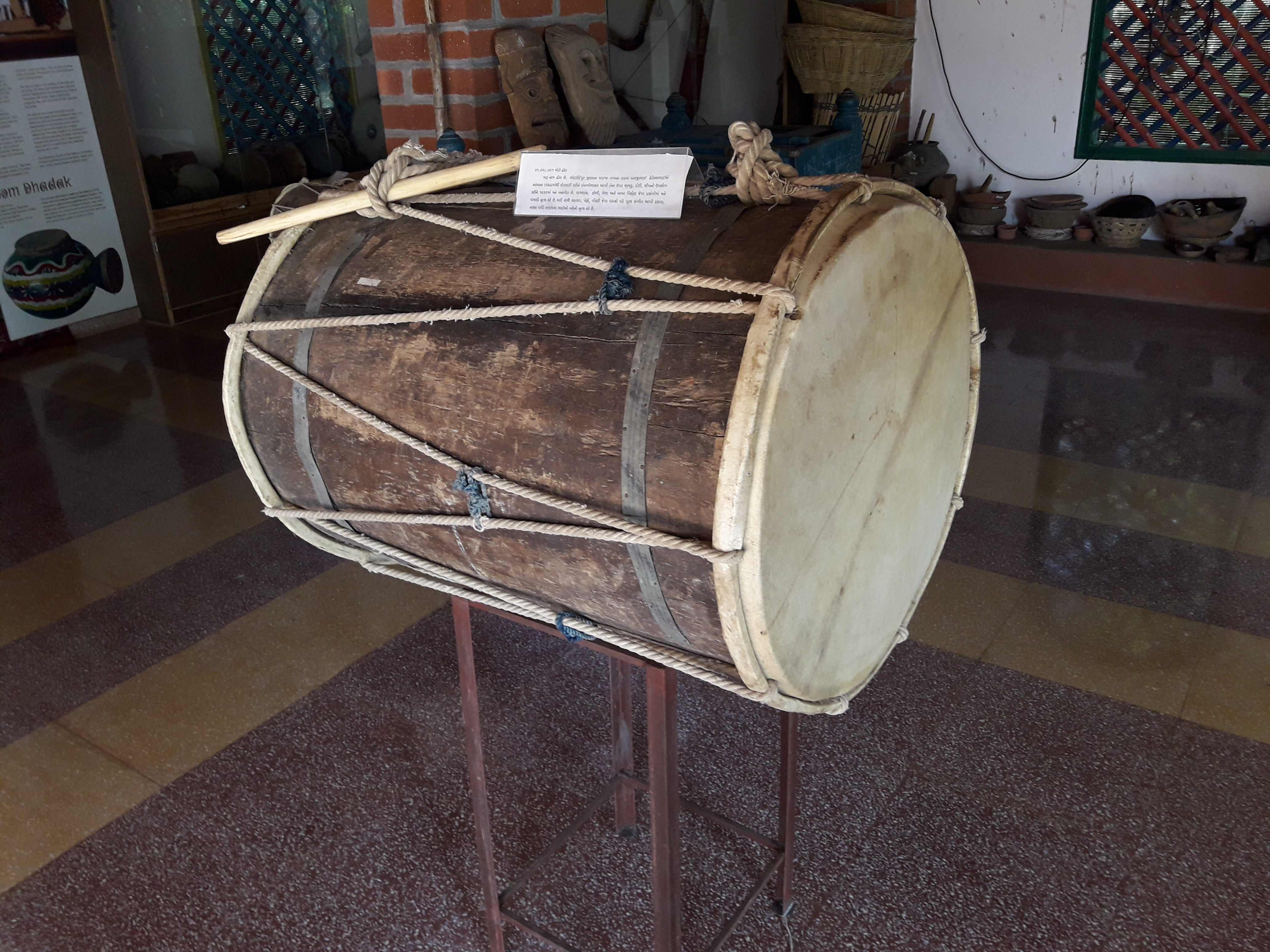 Dhol of Adivasi people of Gujarat at Museum of The Trible Academy Tejgadh, Gujarat, India. Dhol is made by Dhanjibhai Rathva, belonged to Chhota Udaipur district, in 1960.